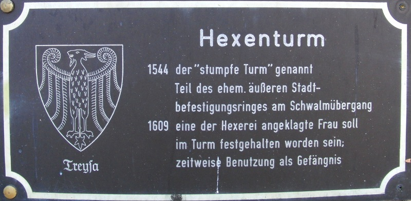 Schild am Hexenturm in Schwalmstadt(Hessen), Deutschland